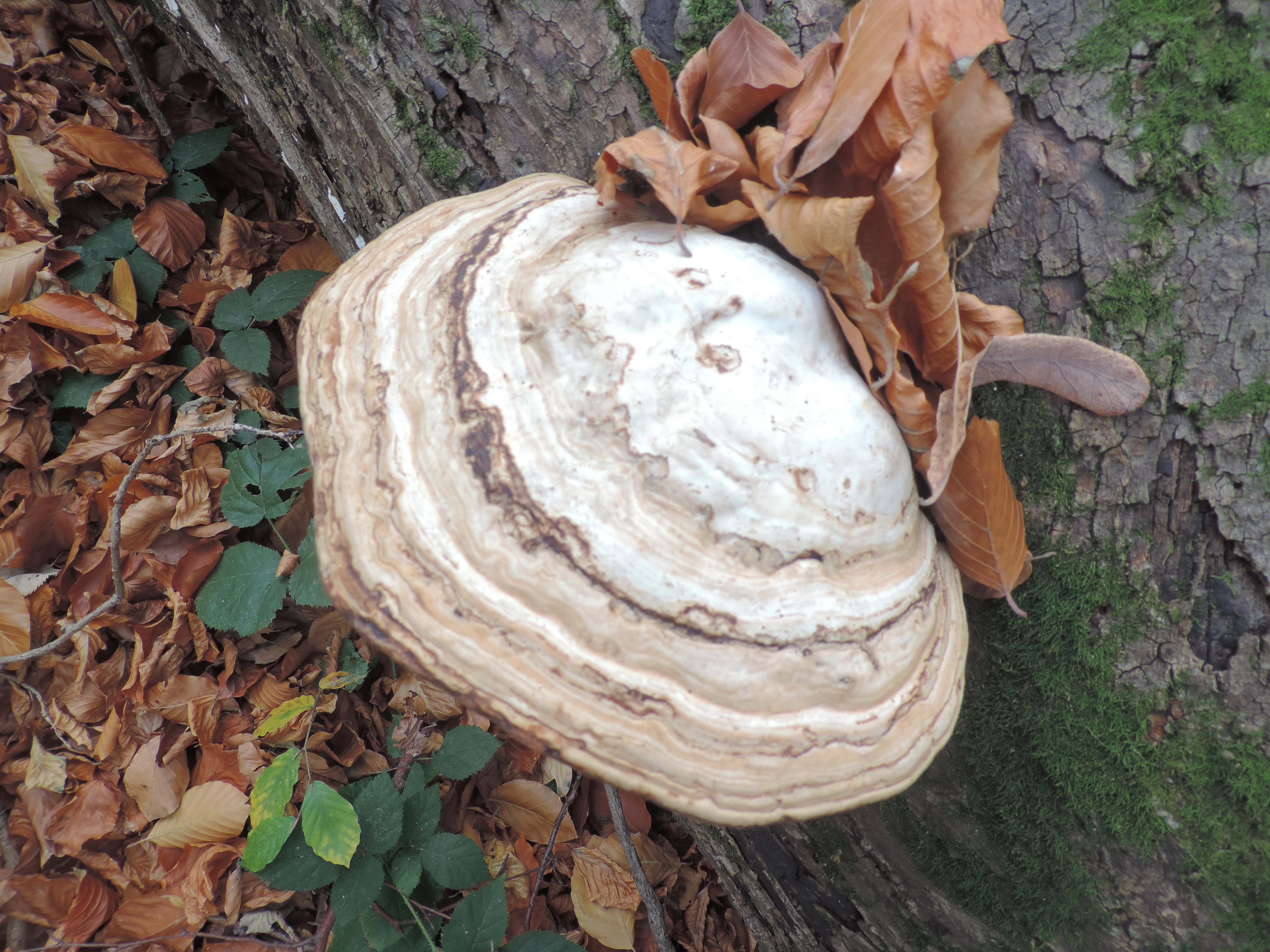 Fomes fomentarius is a tough perennial polypore that usually becomes hoof-shaped with age; it is found on standing and fallen hardwoods.